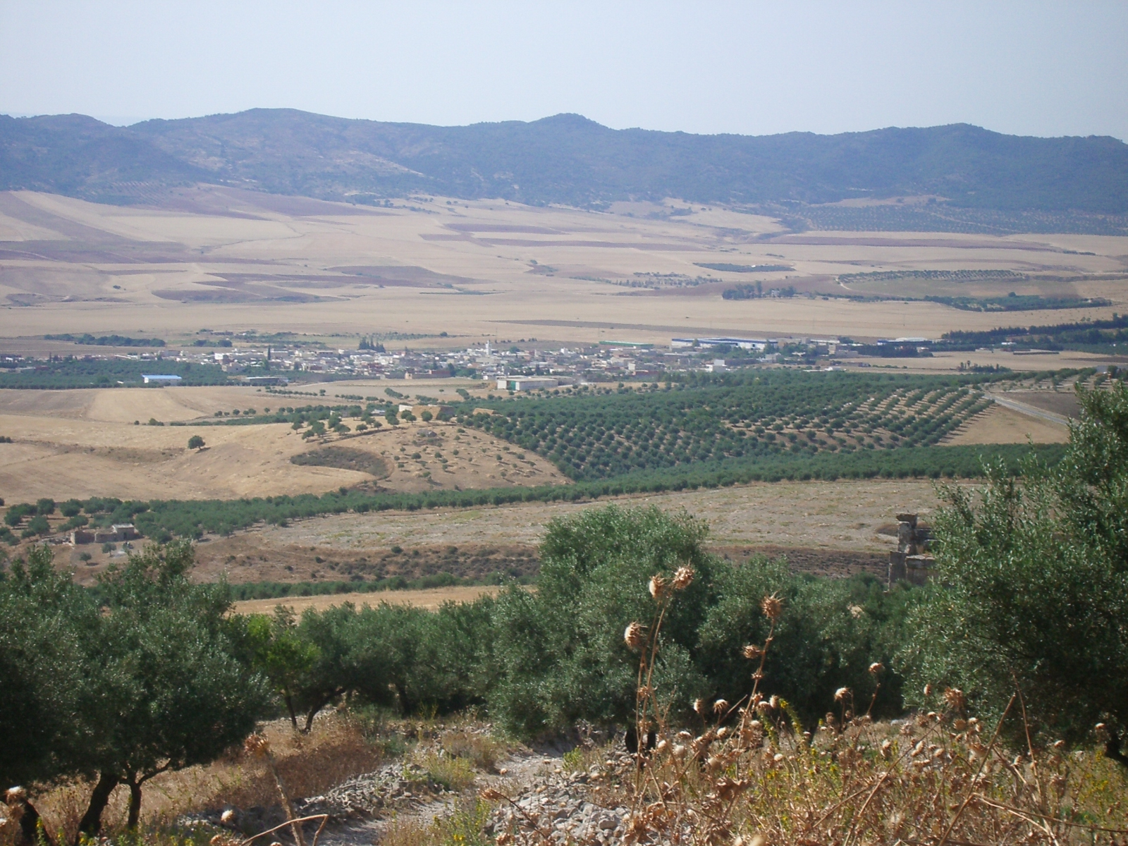 Teboursouk